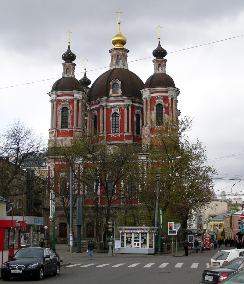 Clement Church, Pyatnitskaya Street, Moscow